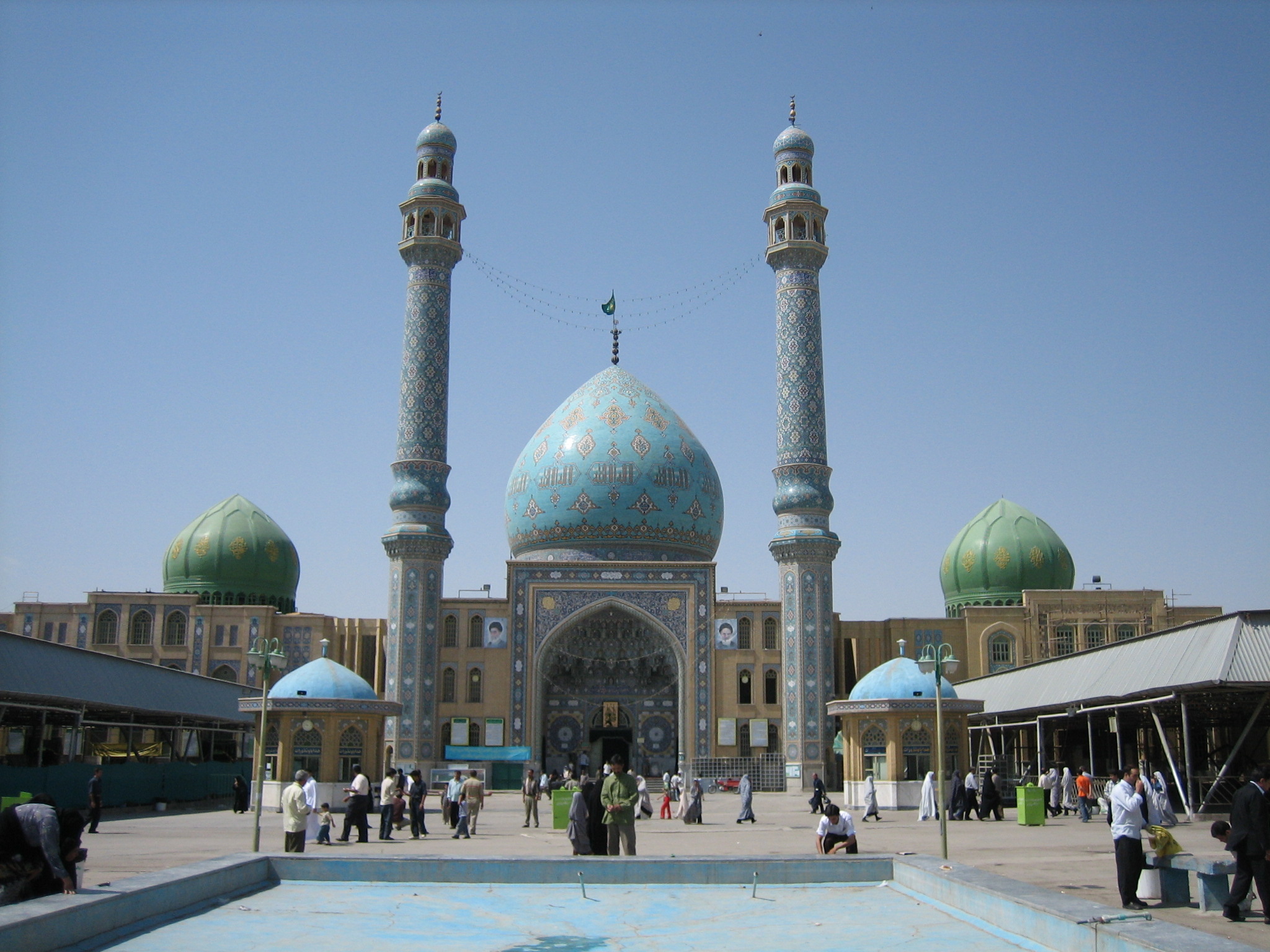 Author: IA. Source: Taken at Jamkaran, Iran in August, 2005.